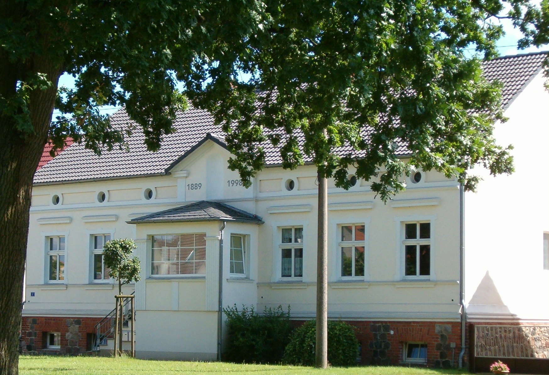 homestead in Wutzetz in Brandenburg, Germany